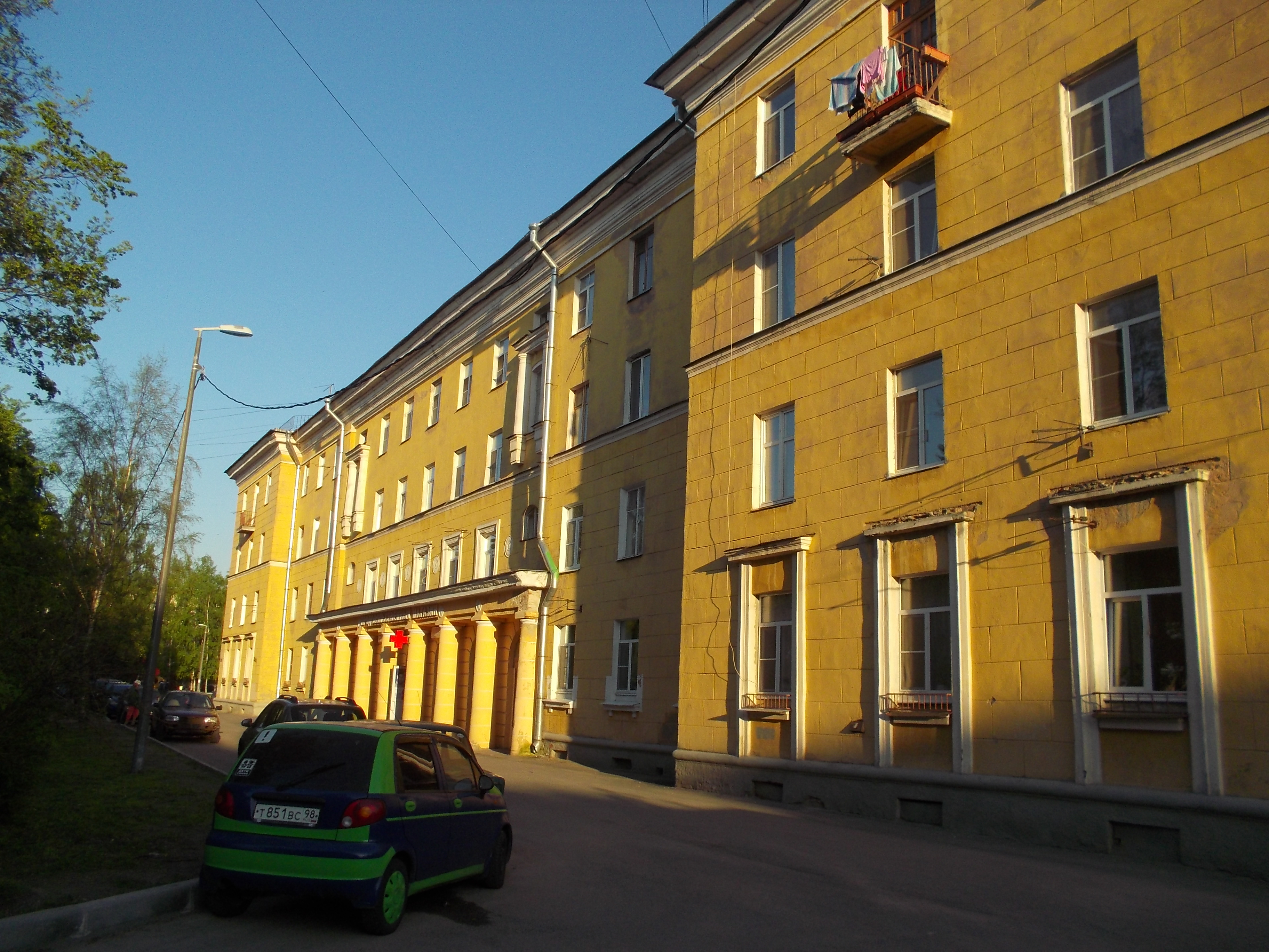 Krasnye Zori 12